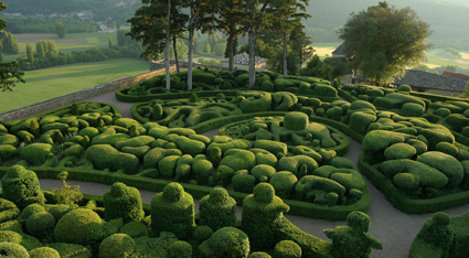 A unique densely textured Topiary Garden in an abstracted pattern, at the Gardens of Marqueyssac - Vézac - Dordogne - France.